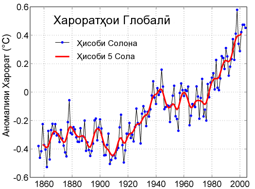 Based on